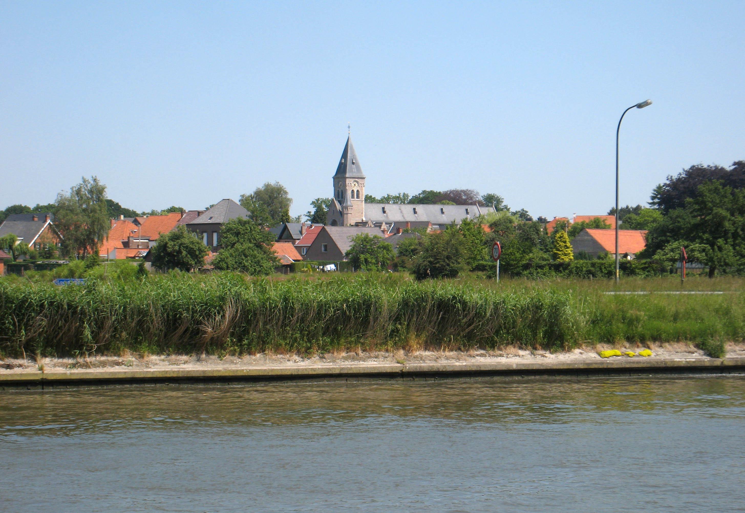 Lovendegem, seen across the Gent-Brugge canal